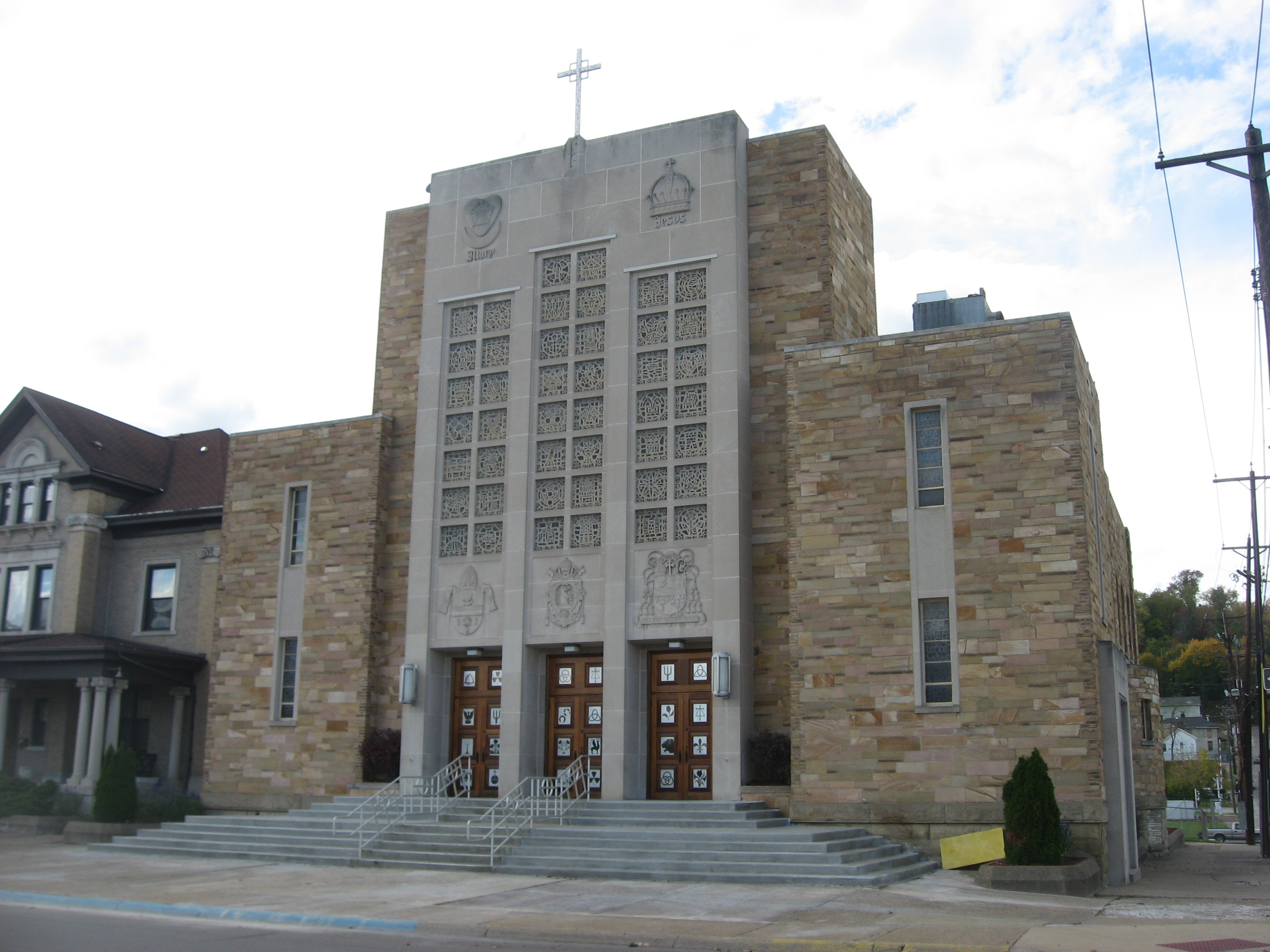 Front and northern side of Holy Name Cathedral, located on the southwestern corner of the junction of Fifth and Slack Streets in Steubenville, Ohio, United States. Built in 1890 and extensively modified in the 1950s, it is the cathedral church of the Diocese of Steubenville.